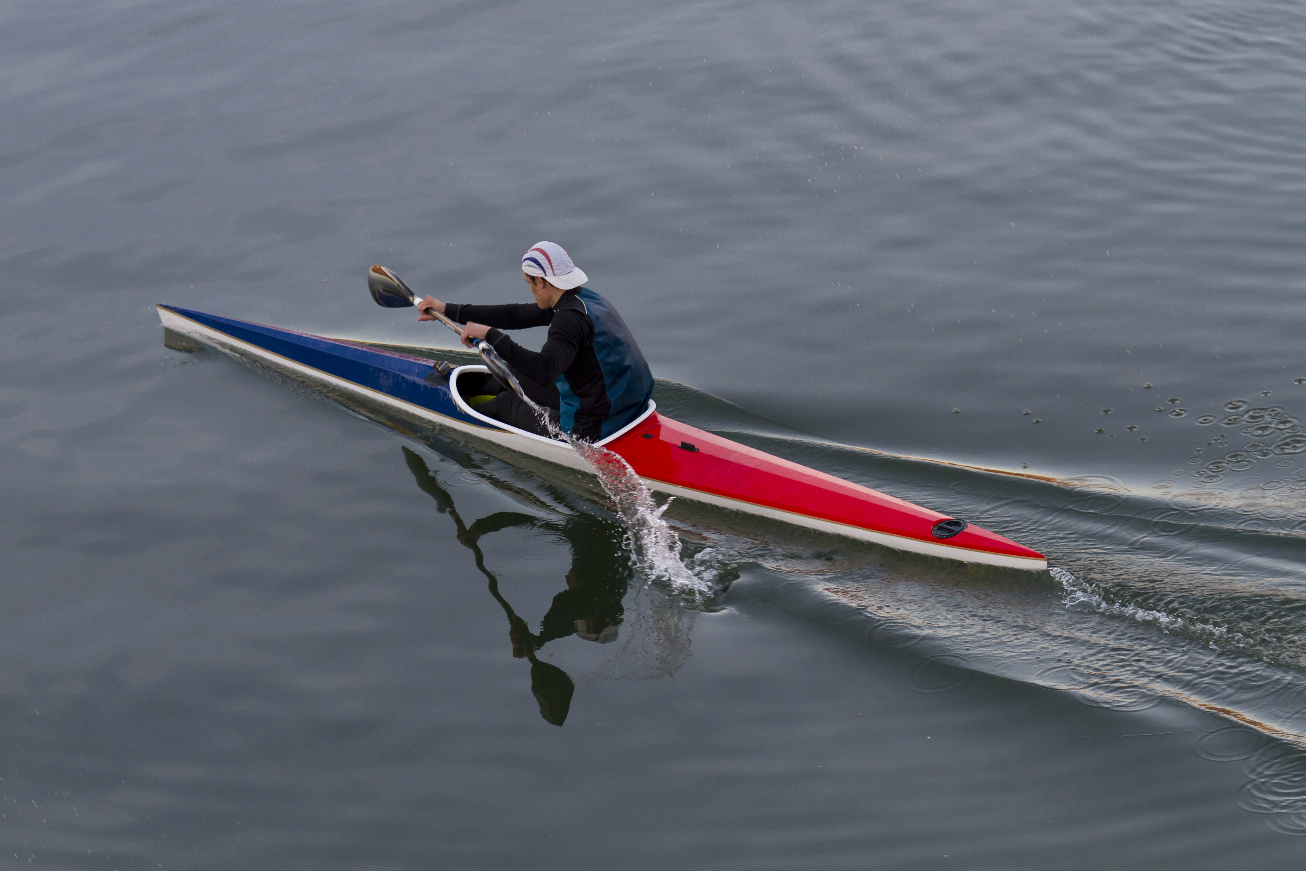 Kayaking (K-1) on Garonne river in Toulouse